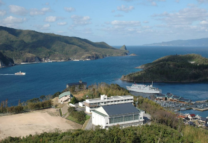 Okidozen high school view 2